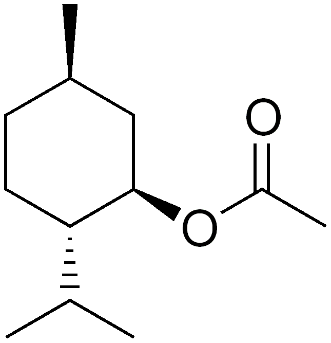 chemical structure of menthyl acetate : (1R)-(−)-Menthyl acetate, L-Menthyl acetate